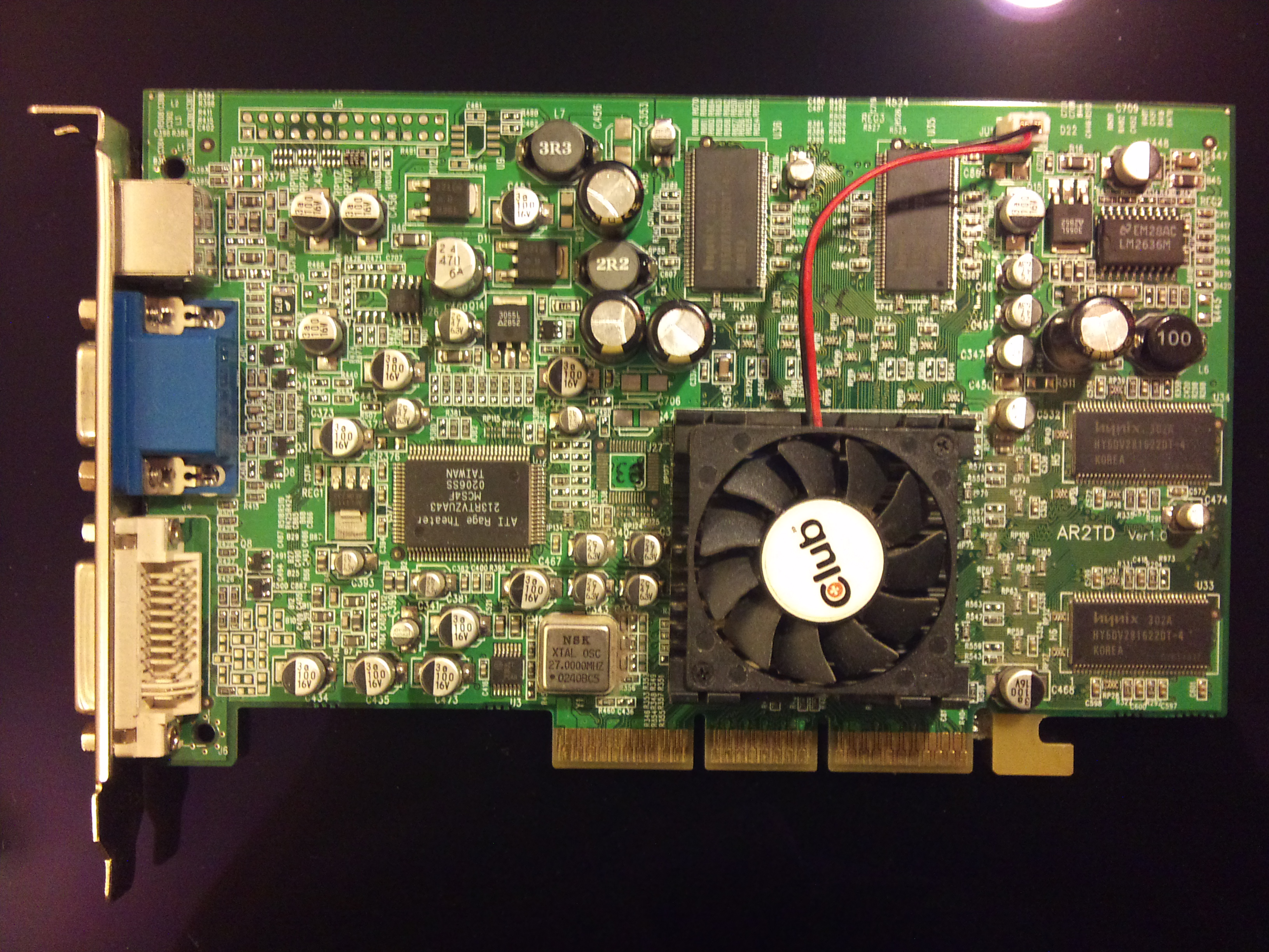 Club 3D ATi Radeon 8500 with 128Mb of DDR-RAM